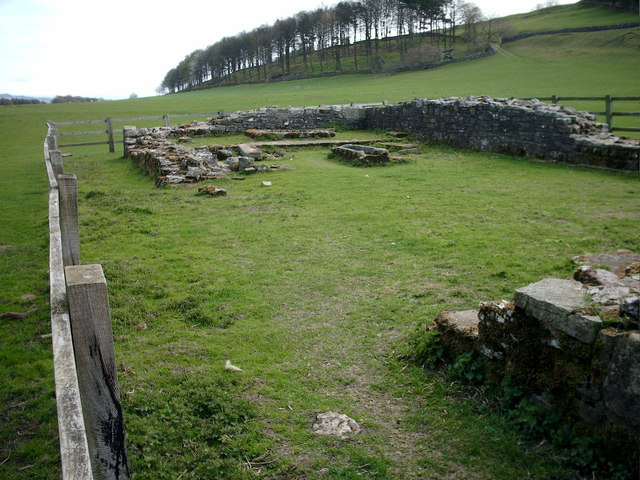 Penhill Preceptory Remains of walls and graves of a chapel in a preceptory* of the Knights Templar.Built C 1200. Dictionary def:- subordinate community of Knights Templars; estates or buildings of this. So now you know!